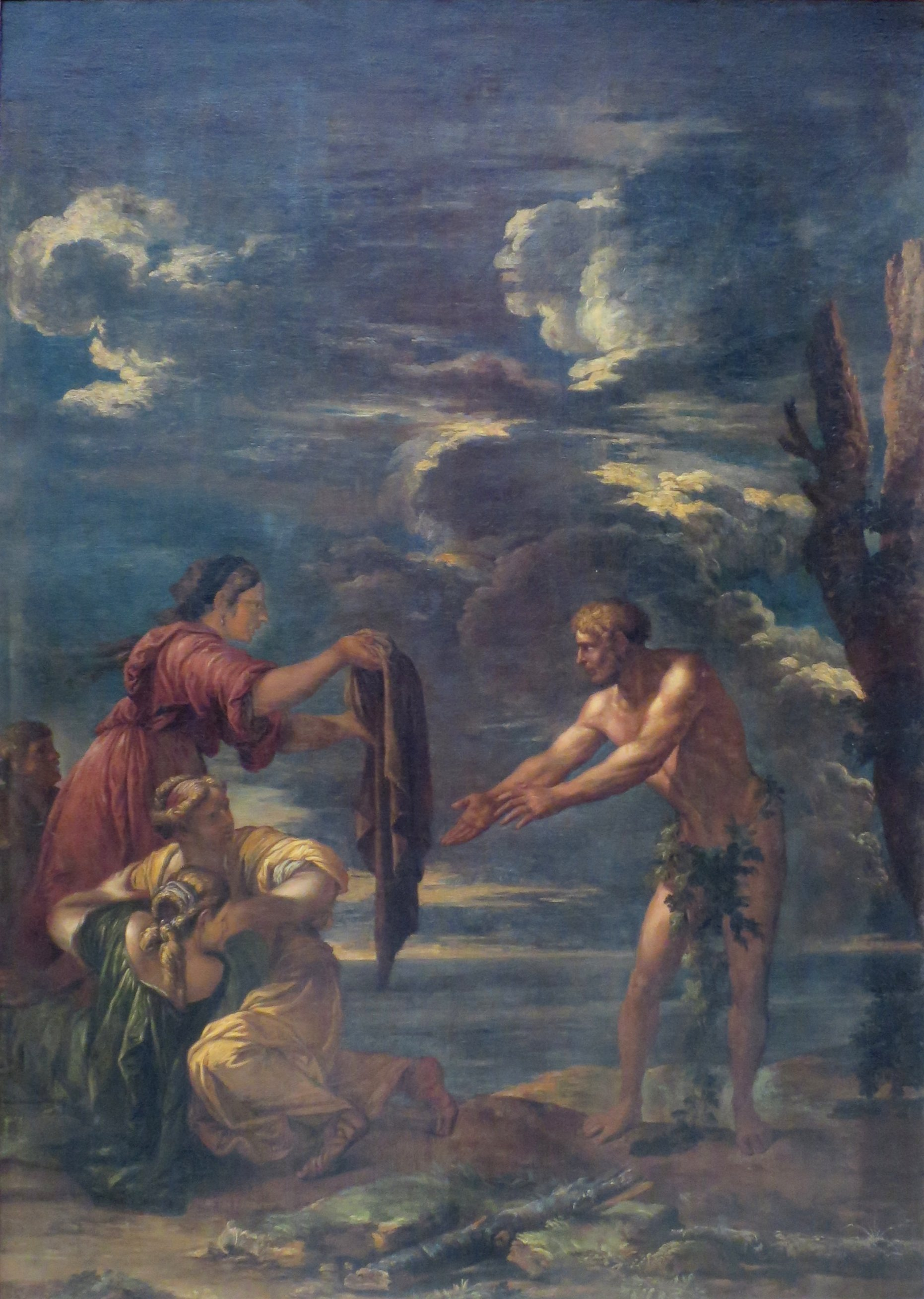 'Odysseus and Nausicaa' by Salvator Rosa, The Hermitage